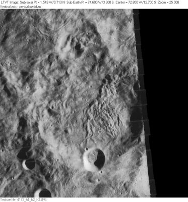 Rocca lunar crater - image LO-IV-173H LTVT